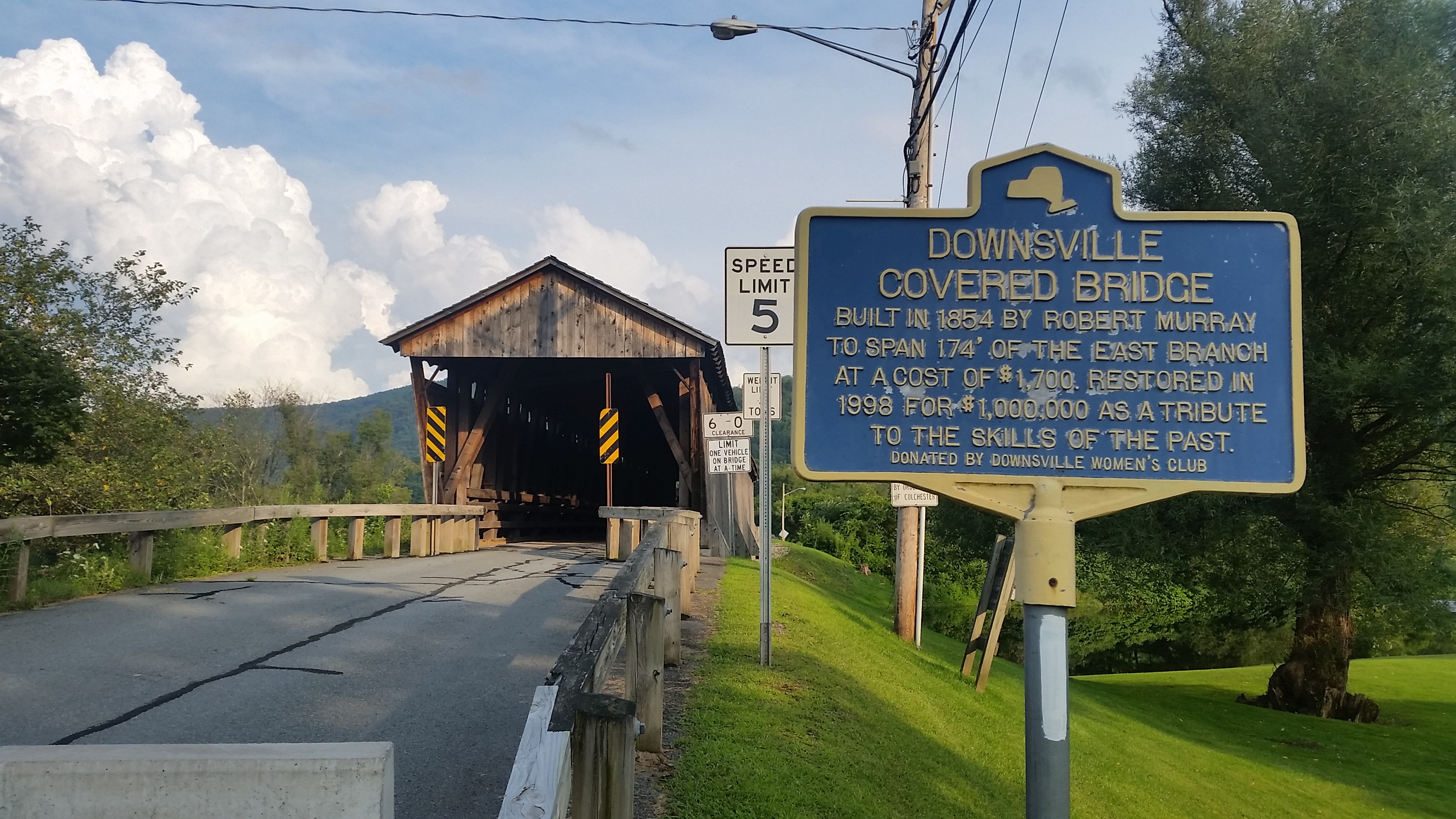 New York State historical marker for the Downsville Bridge, north side of the bridge